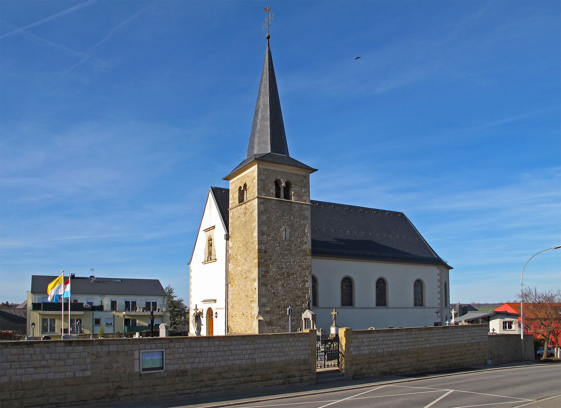 Church of Frisange, Luxembourg